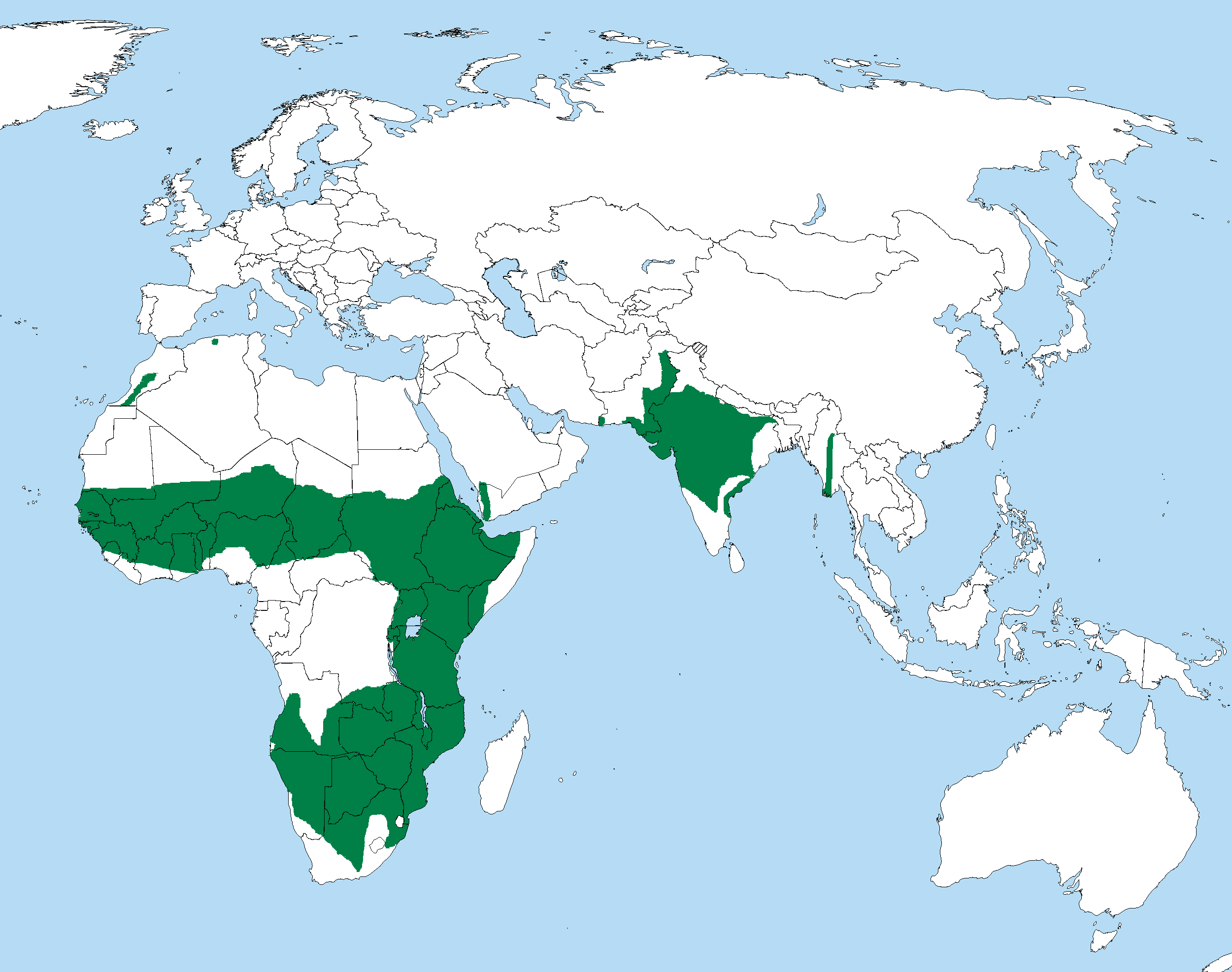 Aquila rapax, area. Based on J. Ferguson-Lees, D. A. Christie: Raptors of the World. Christopher Helm, London 2001. ISBN 0-7136-8026-1 S. 238